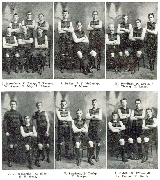 Photo of the 1909 West Adelaide premiership players by positions.